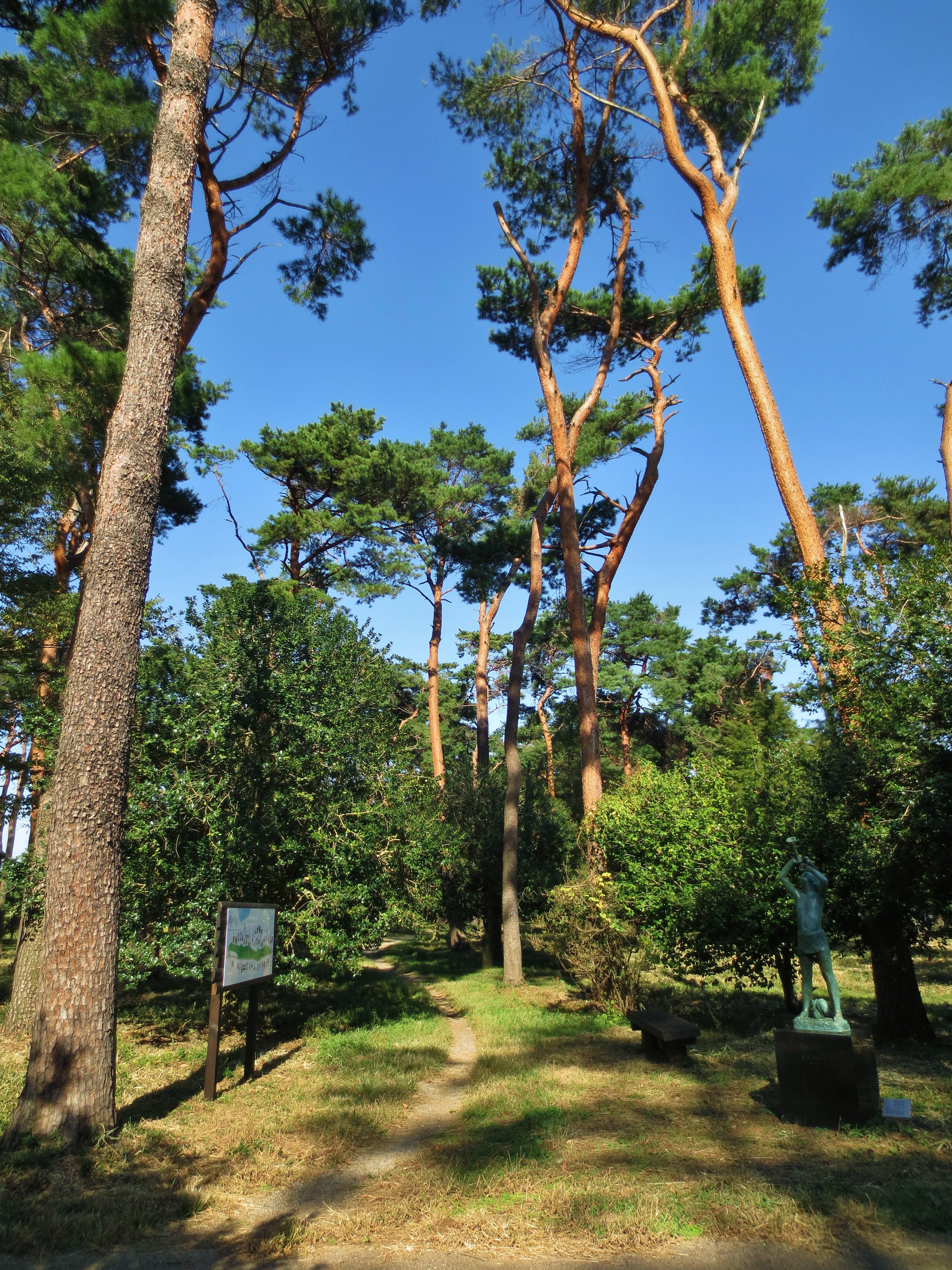 Tatebayashi City Sculpture Pathway.